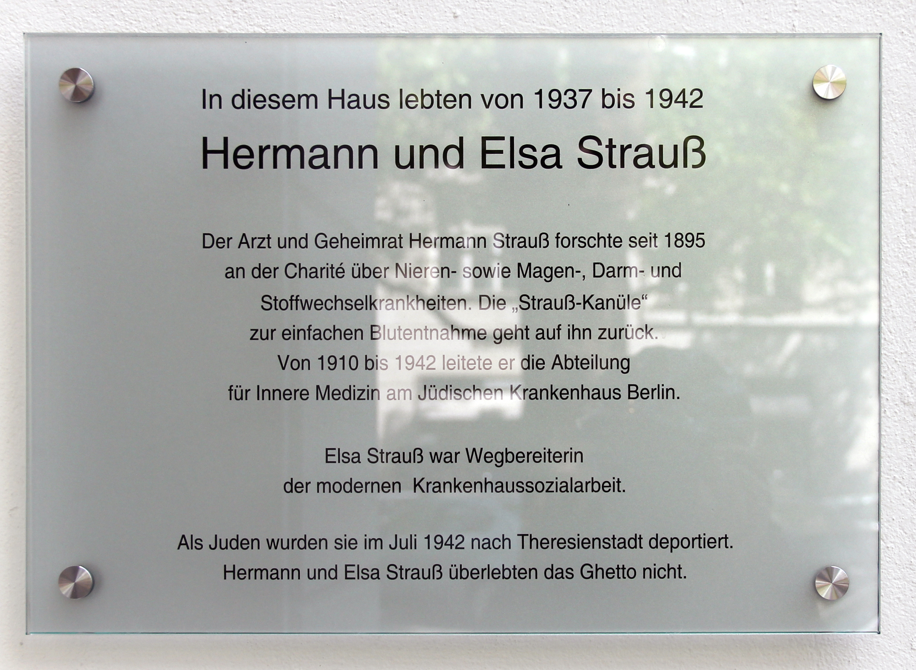 Memorial plaque, Hermann und Elsa Strauß, Kurfürstendamm 184, Berlin-Charlottenburg, Germany